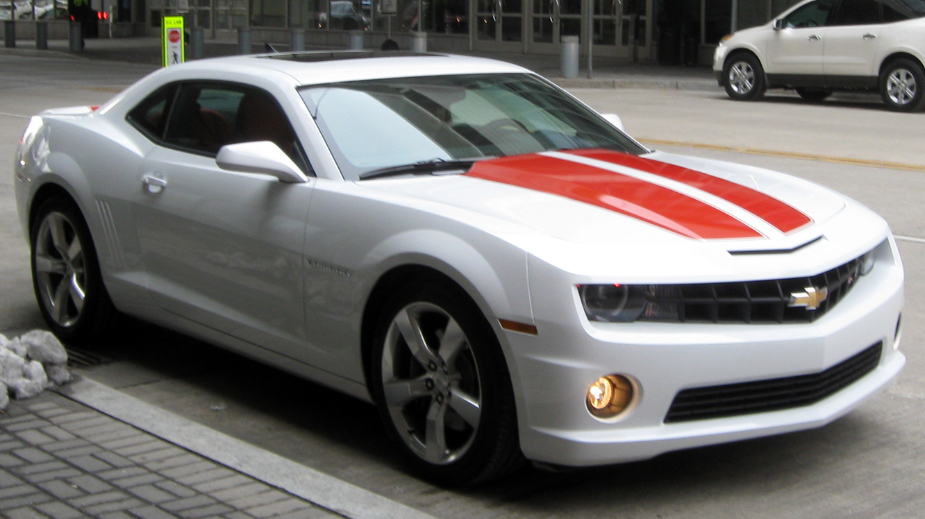 2011 Chevrolet Camaro photographed at the 2011 Washington (D.C.) Auto Show.